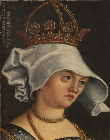 Anna (Gertrud) of Hohenburg, 1st wife of Rudolph I